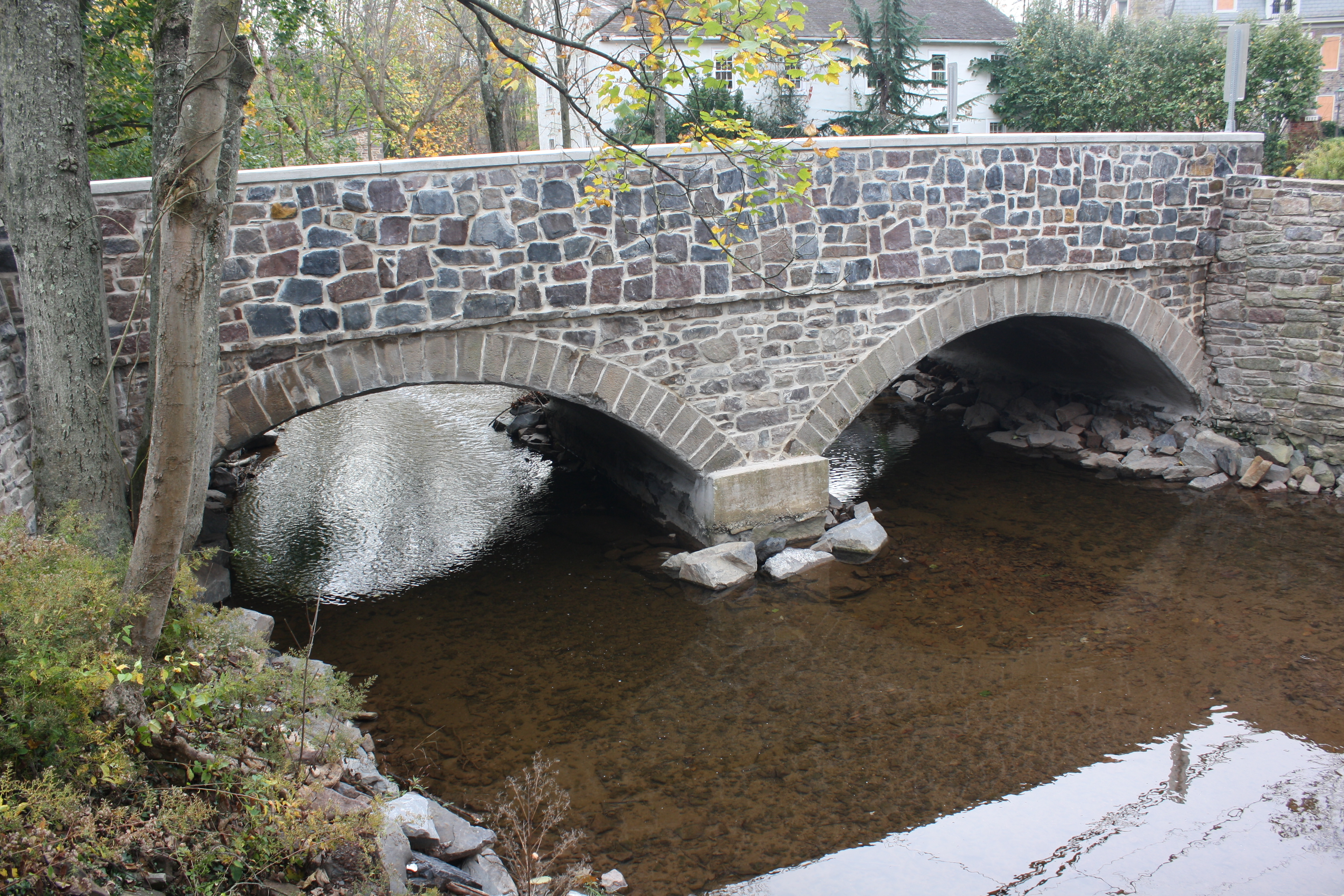 Bridge in Solebury Township, an historic stone arch bridge over Paunacussing Creek (1854) located at Carversville in Solebury Township, Bucks County, Pennsylvania. Object location40° 23′ 08.88″ N, 75° 03′ 50.04″ W